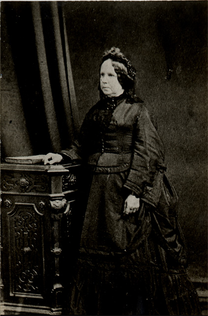 Portrait of Joséphine-Éléonore d'Estimauville, circa 1882